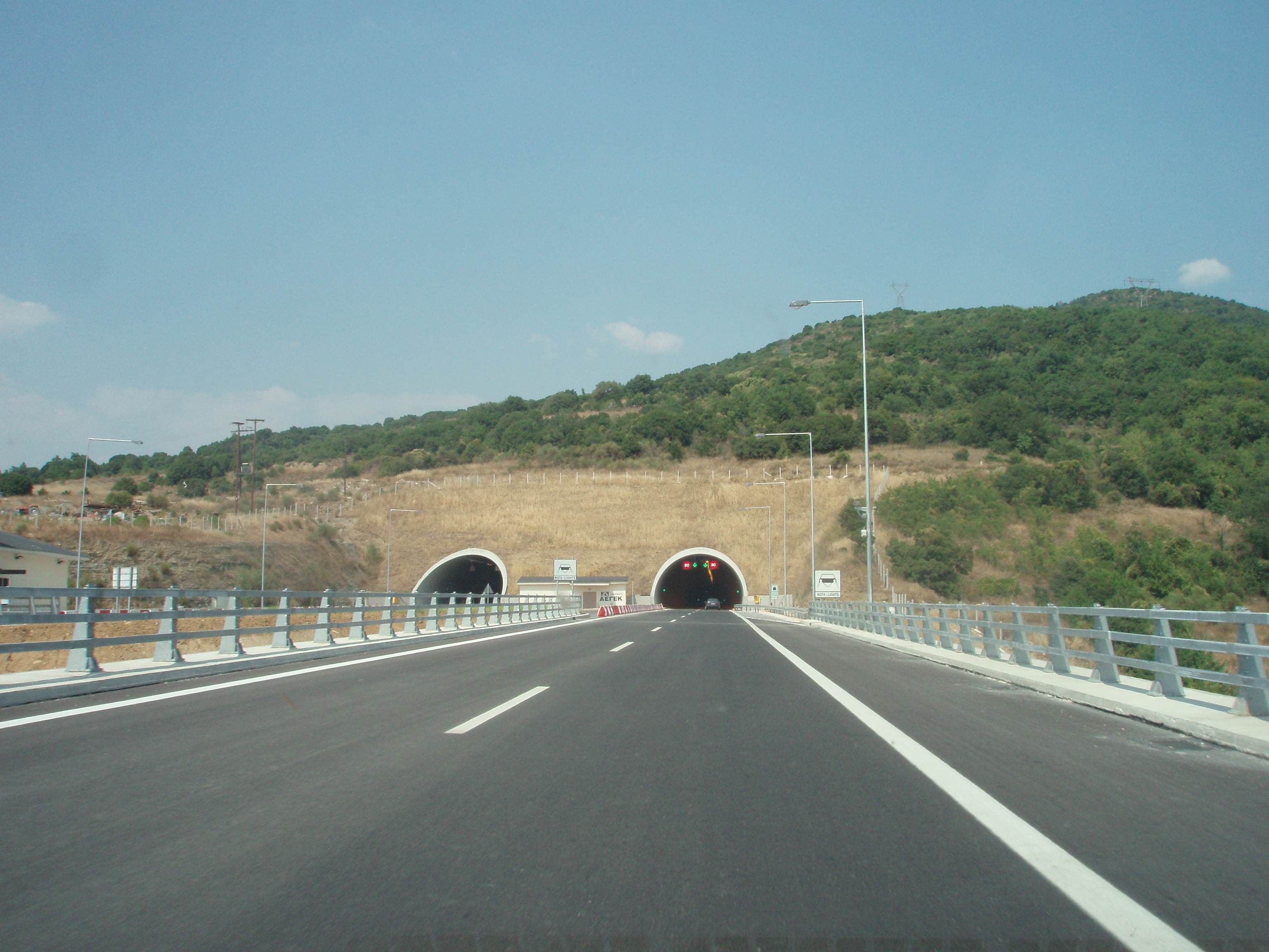 A2 motorway (Egnatia Odos) in Greece, section Ioannina-Driskos. Southern entry of both tubes of Driskos tunnel is shown (length 4,600&m).